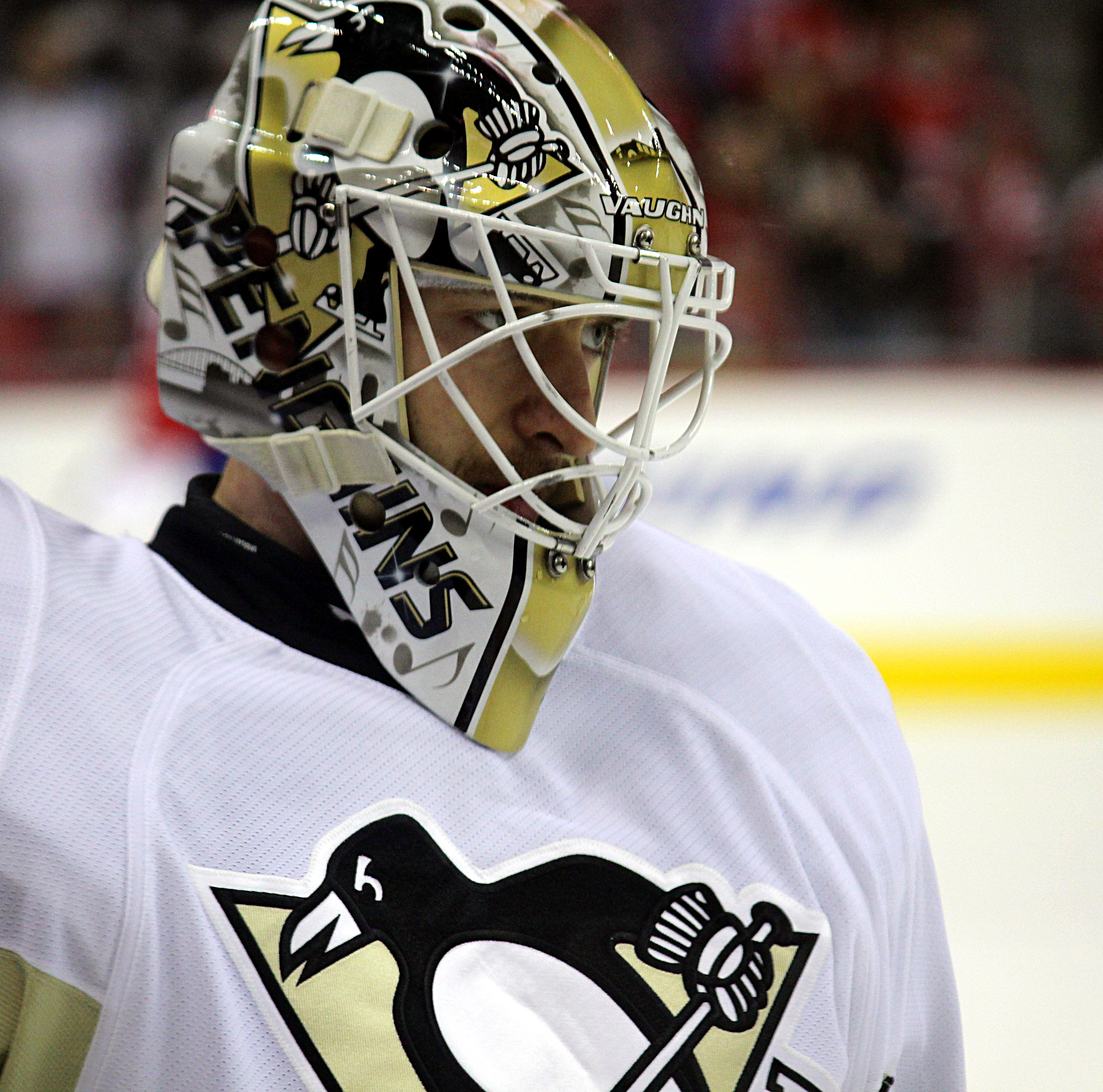 Pittsburgh Penguins goaltender Matt Murray during a game against the Washington Capitals, March 1, 2016, at Verizon Center in Washington, D.C.